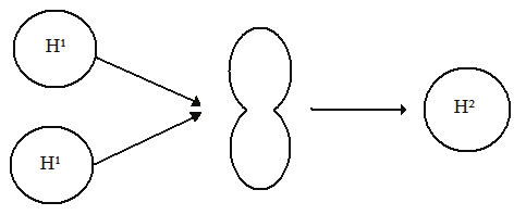 Esquema de reação de fusão nuclear em que doisprótons se fundem para gerar o dêuteron.